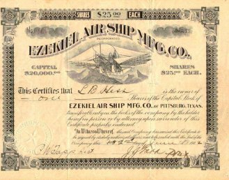 Antique stock certificate from the Ezekiel Air Ship Mfg. Co. dated 1902. The company claimed to have flown one year before the Wright brothers. A picture of the aircraft is highlighted on the certificate. Other information